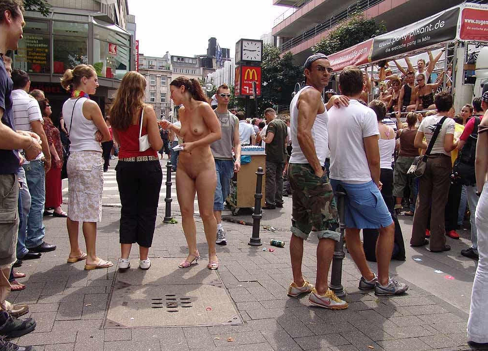 Girl hands out flyer at the Loveparade